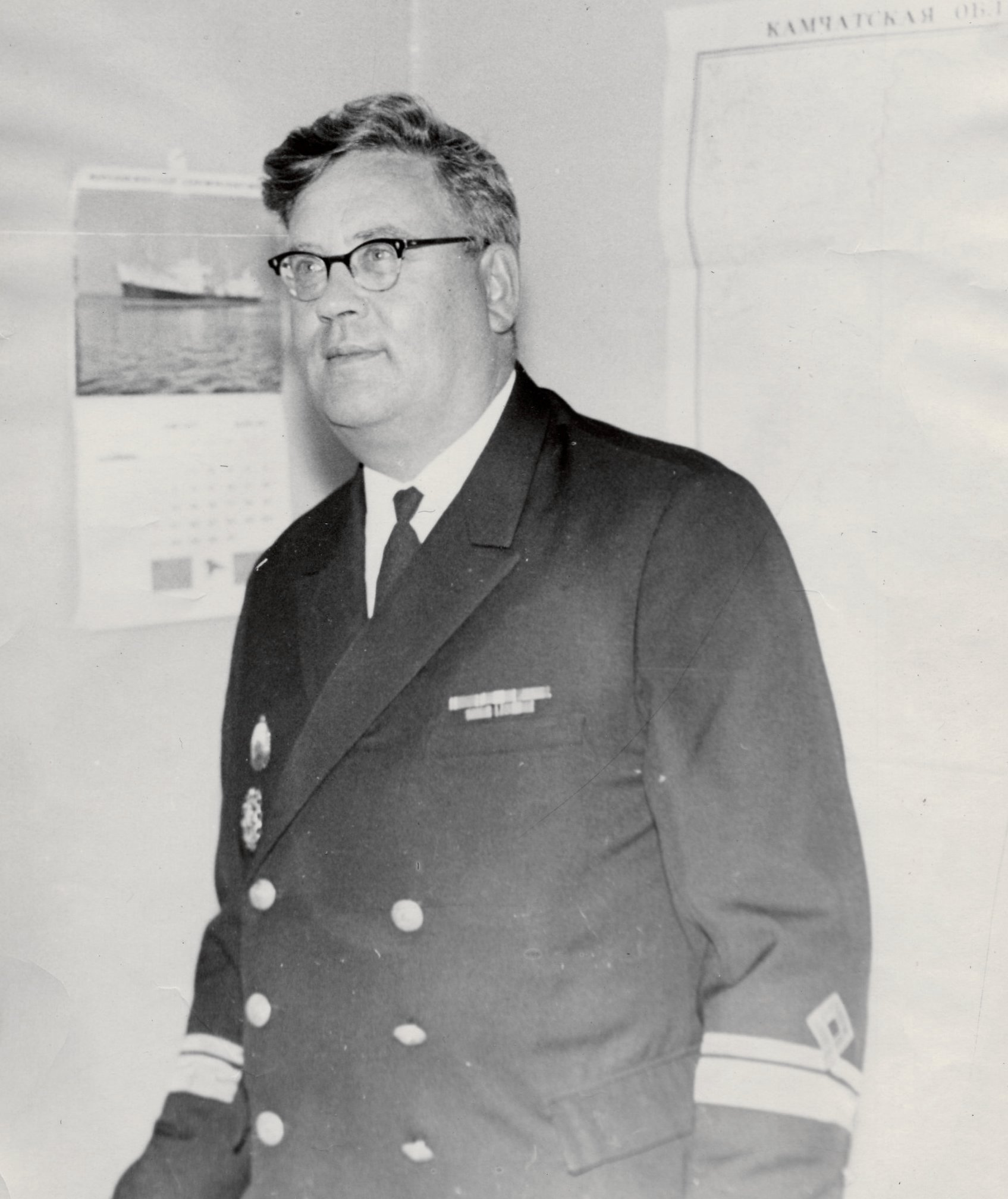 Pavel Kiselev (1914-1996) in his office. Kamchatka, 1960s. An image from family archive, owned by D.Kiselev